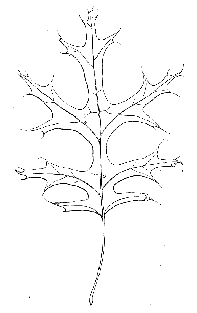 Image that accompanied Henry David Thoreau's essay "Autumnal Tints," The Atlantic Monthly, Volume 10, Issue 60, pp. 385-403.